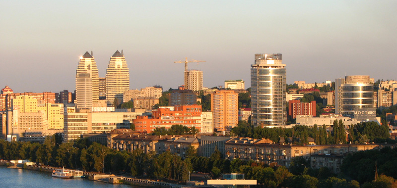 Dnipropetrovsk